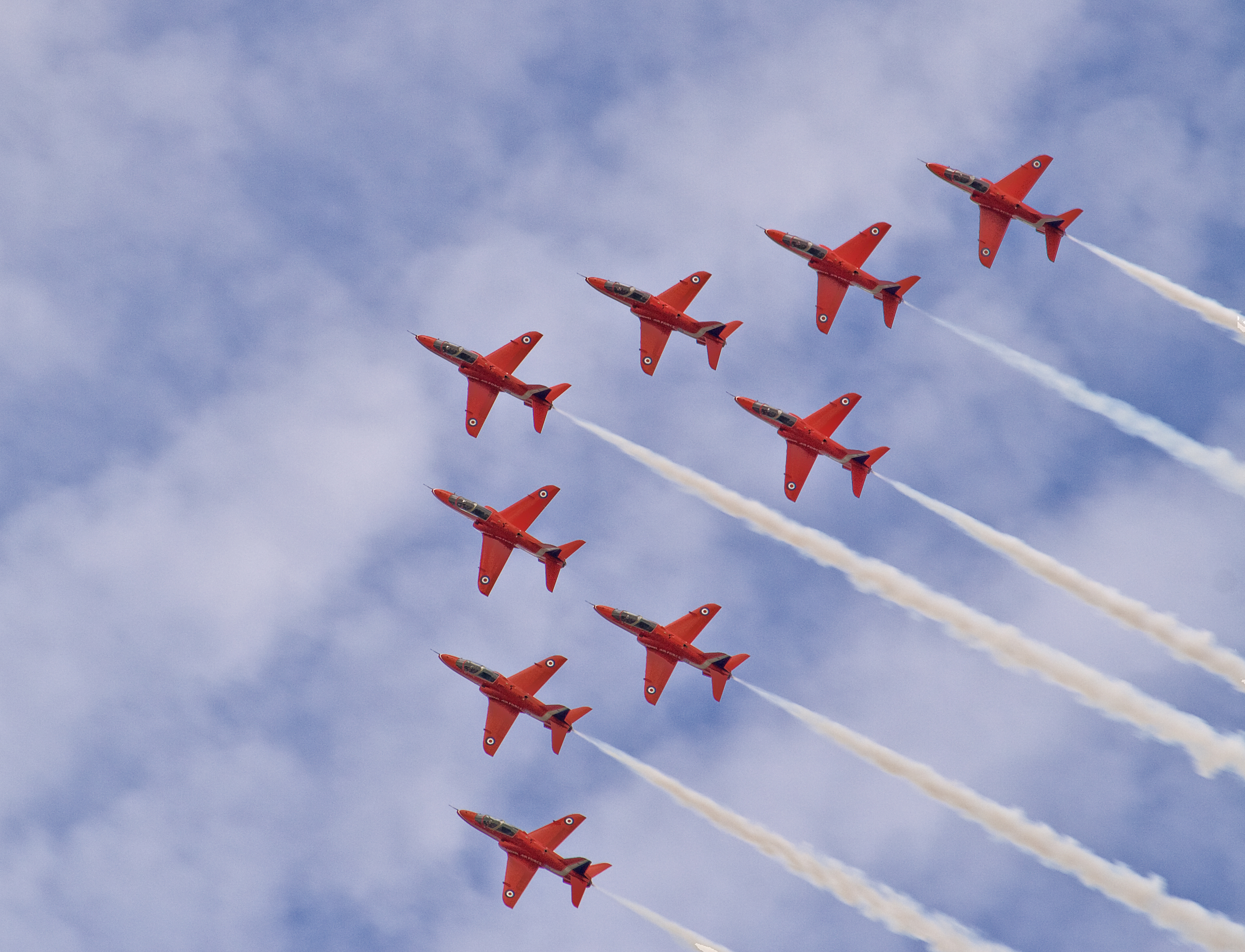 The Red Arrows are renowned throughout the world as ambassadors for both the Royal Air Force and the United Kingdom. Since the Team was officially formed in 1965, the Red Arrows have completed over 4,000 displays in 53 countries. The Red Arrows’ reputation is built on the commitment and professionalism, combined with Royal Air Force skills, training and equipment. Many of the Red Arrows’ pilots and support staff have recently returned from Afghanistan and Iraq and many will be temporarily detached on operations overseas during their time with the Red Arrows Catch them at some point this year